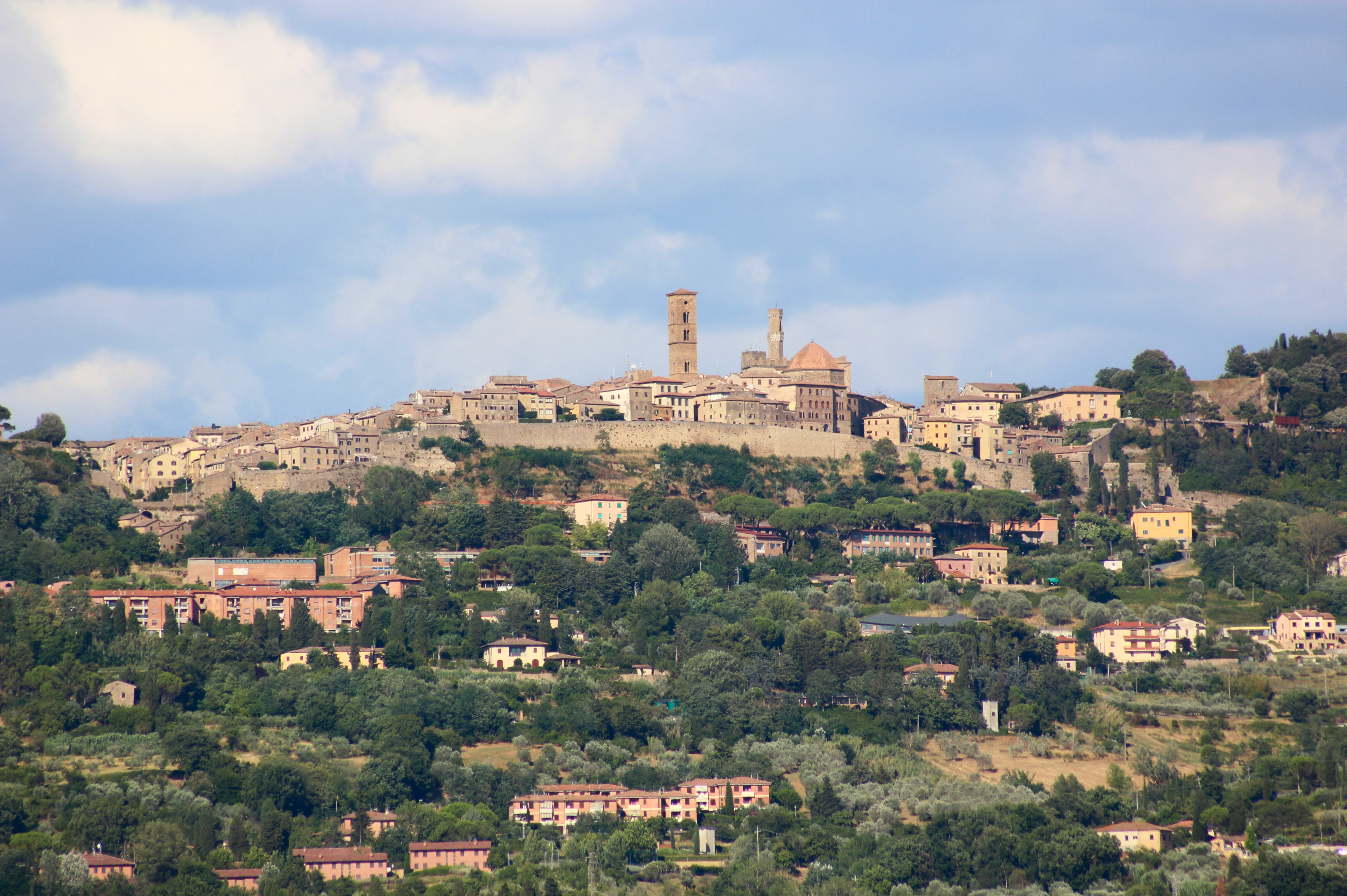 Panorama of Volterra, Province of Pisa, Tuscany, Italy